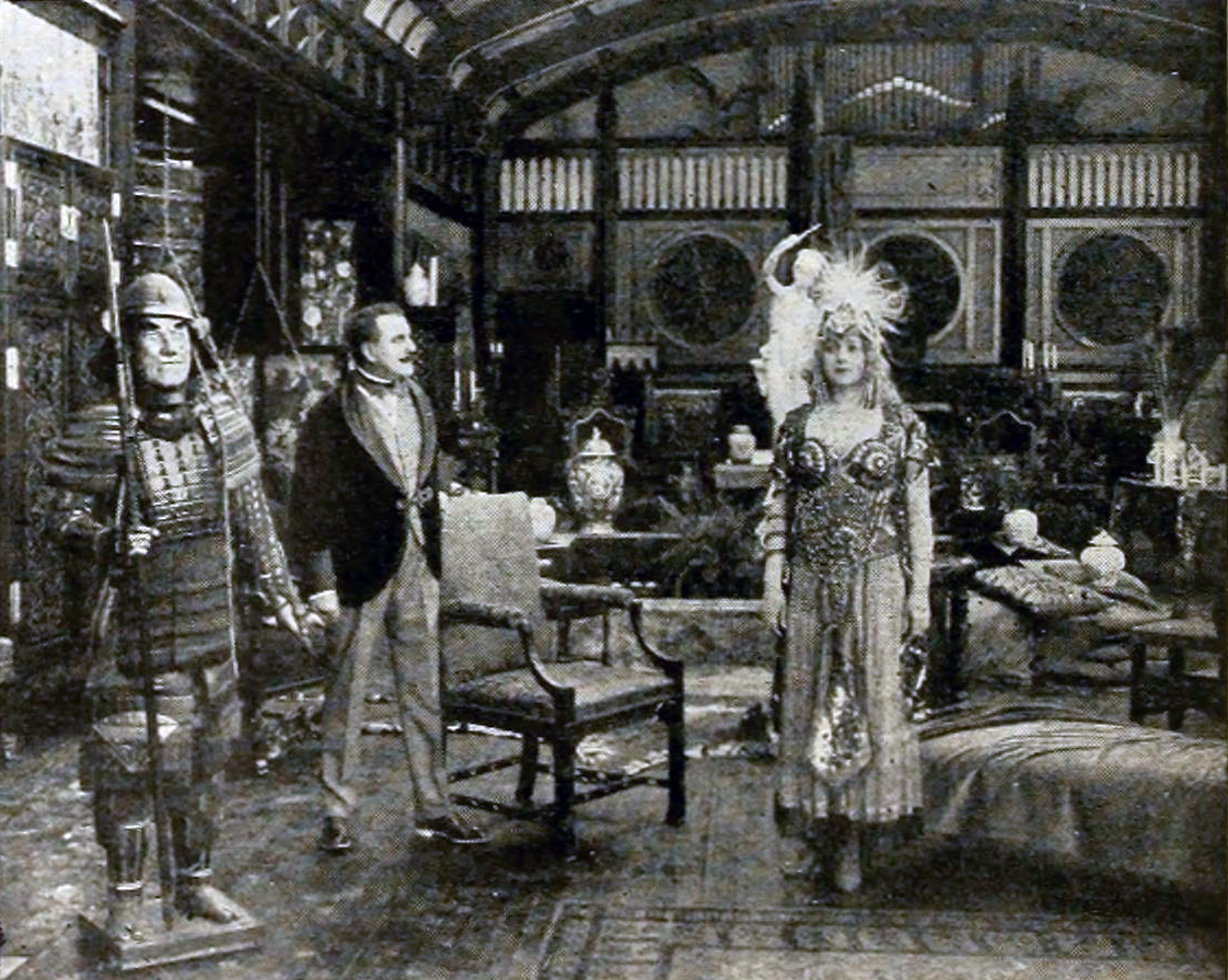 Illustration of an article in The Moving Picture World for the American film The American Beauty (1916) with an unidentified actor and Myrtle Stedman.